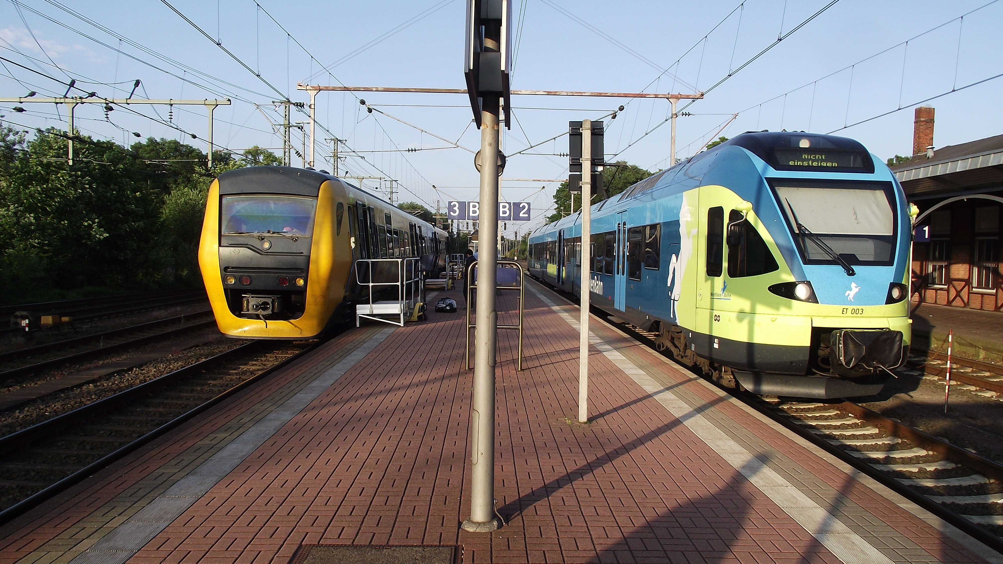 Correspondance at Bad Bentheim of the German local "Westfalen Bahn" train with the Dutch local Synthus train. Note the mobile platform wich is moved after the day service.